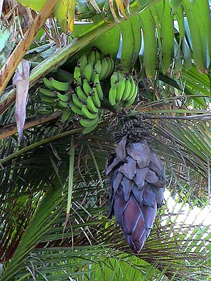 bananen"boom" / Musa (foto Wouter Hagens)